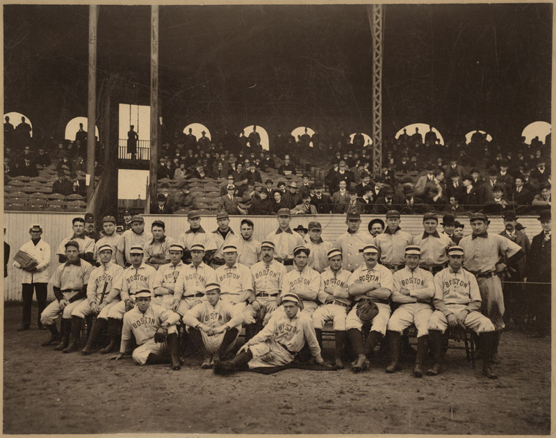 BPLDC no.: 09_03_000032 Title: Boston Americans and Pittsburgh Pirates, Huntington Avenue Grounds, 1903 World Series Creator: Elmer Chickering, photographer (active 1884-1919) Date created: 1903 General format: photograph BPL Department: Print Department Description: This photograph was taken before the eighth and deciding game of the first World Series, won by the Boston Americans (renamed the Boston Red Sox in 1907). The Pirates (top, left to right): Claude Ritchey, Harry Smith, Eddie Phelps, Ginger Beaumont, Deacon Phillippe, Sam Leever, Bucky Veil, Gus Thompson, Tommy Leach, Jimmy Sebring, Brickyard Kennedy Fred Carisch and Honus Wagner. Middle: Pirate manager and outfielder Fred Clarke. Boston (bottom, left to right): Jimmie Collins, Chick Stahl, Bill Dineen, Buck Freeman, Candy LaChance, Patsy Dougherty, George Winter, Duke Farrell, Jack O'Brien, Long Tom Hughes. Bottom: Fred Parent, Lou Criger, Hobe Ferris Added to the Boston Public Library’s collection in 1923.